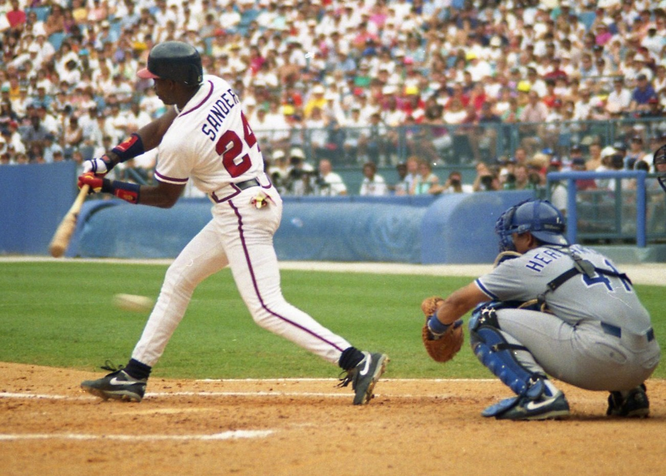 Dion Sanders JUST MISSING a home run against the Dodgers 1993